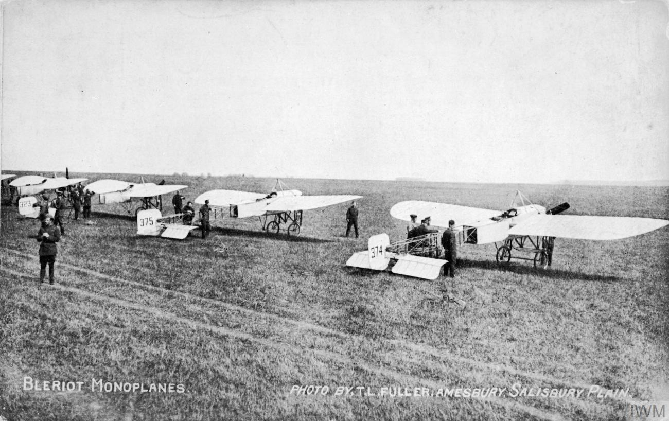 The Royal Flying Corps 1912 - 1918 Bleriot XI aircraft lined up at the 'concentration camp' of the Military Wing of the Royal Flying Corps, assembled at Netheravon in June 1914. Aircraft include (left to right) Nos. 323, 374 and 375 of No 3 Squadron RFC.